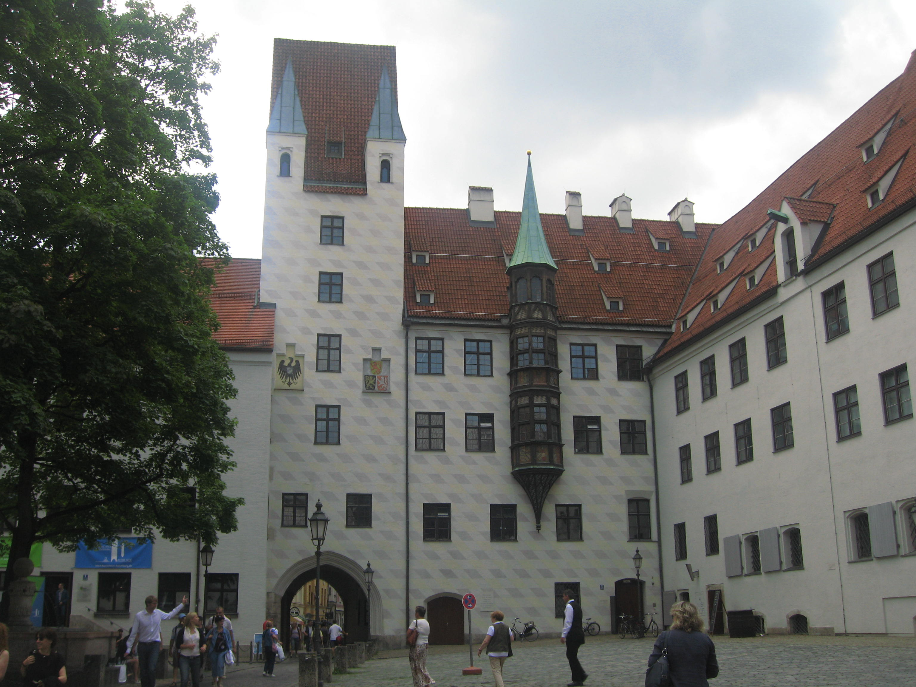 Alter Hof Munchen